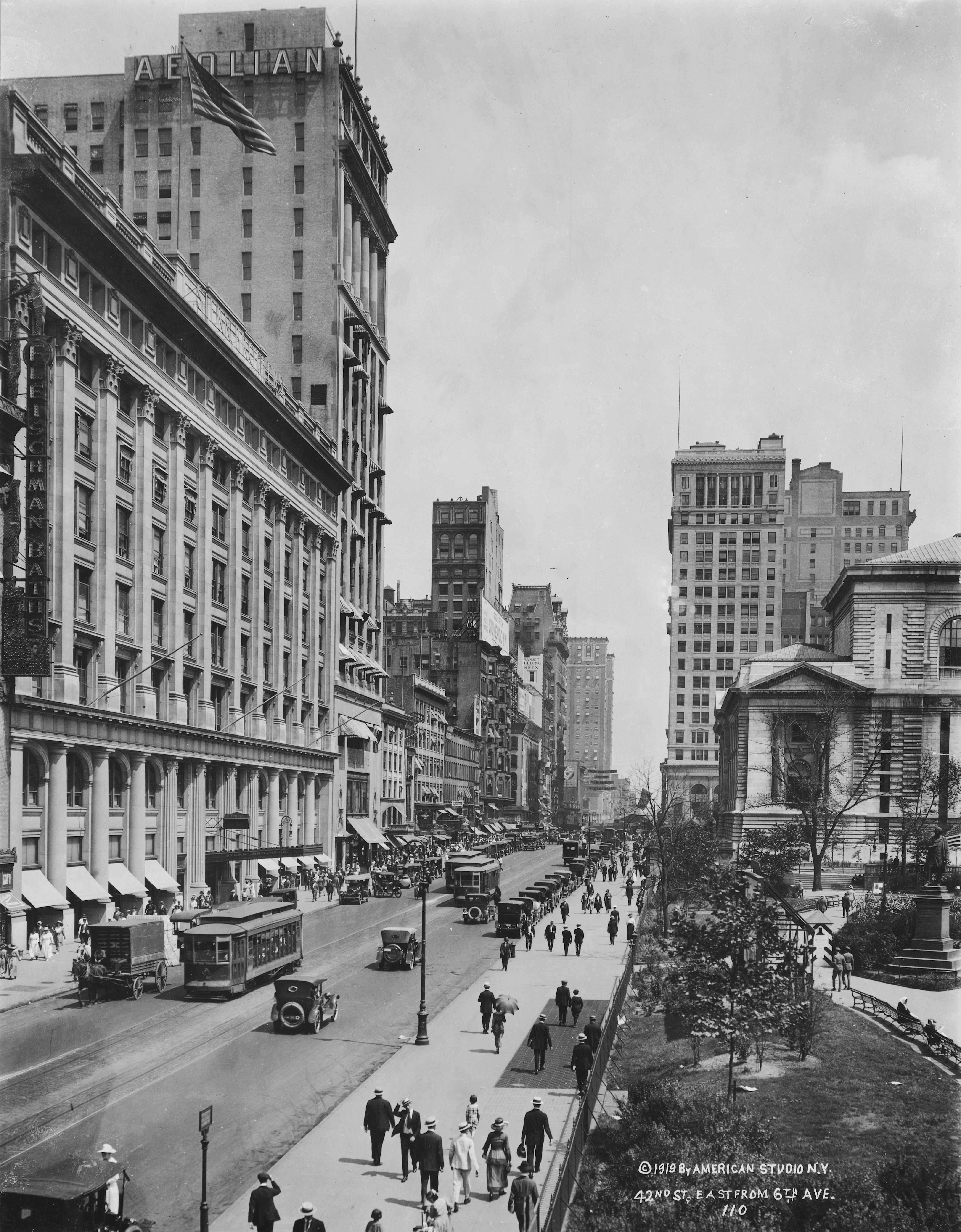 42nd Street, view east from 6th Avenue, Manhattan. The large building at left is Stern Brothers' department store, opened in 1913; the next building to the east is the Aeolian Company building, with Aeolian Hall. At right is the Schwarzman Building of the New York Public Library, with Bryant Park in the foreground. (This image has been desaturated, and converted from tiff to jpg format, by the uploader.)